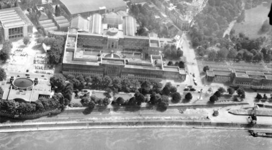 Title: Rheinbefliegung, Düsseldorf Factual corrections and alternative descriptions are encouraged separately from the original description. Additionally errors can be reported at this page to inform the Bundesarchiv. Original historic description: Rheinbefliegung der Alliierten 1953